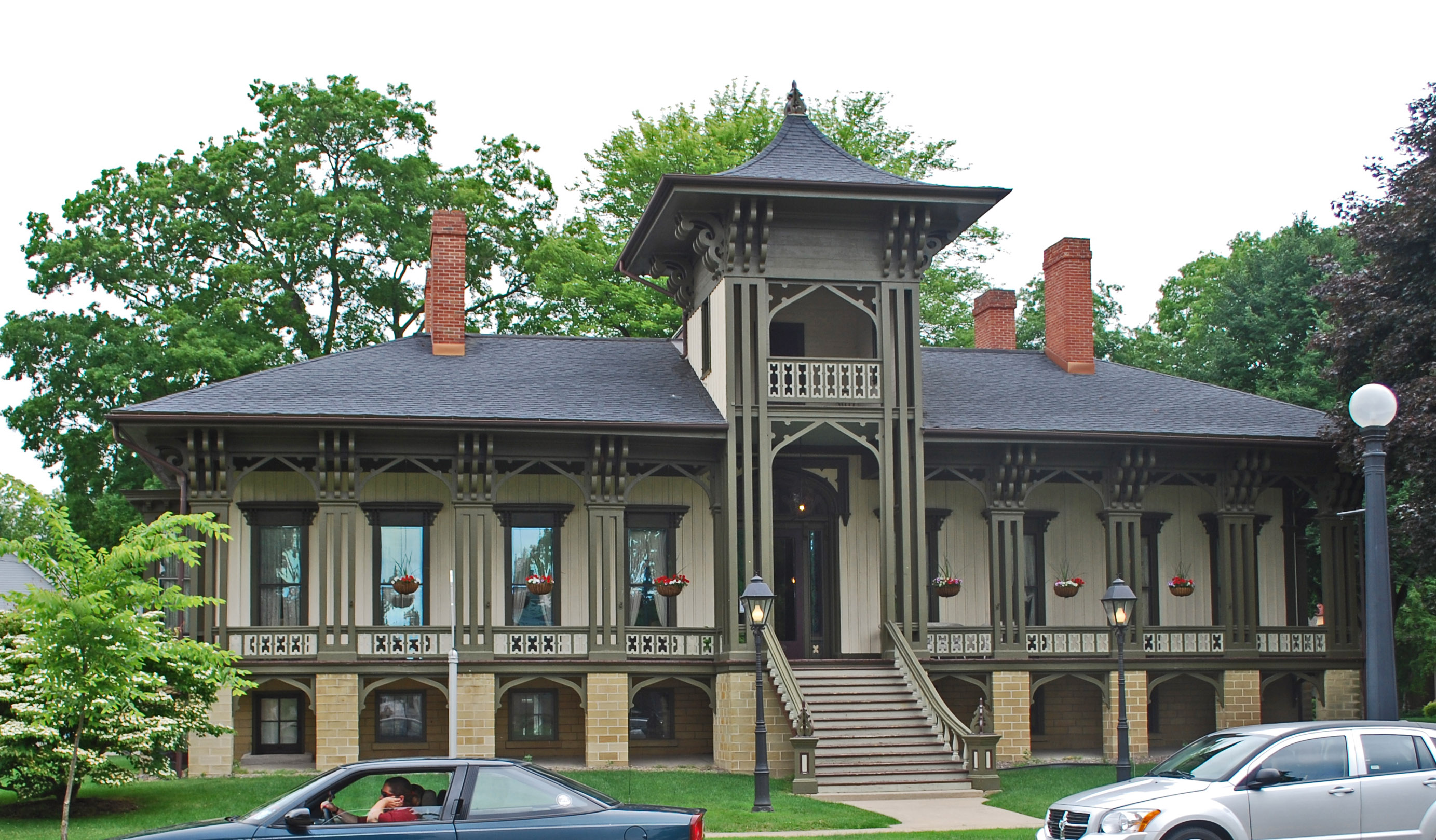 Honolulu House, Marshall MI